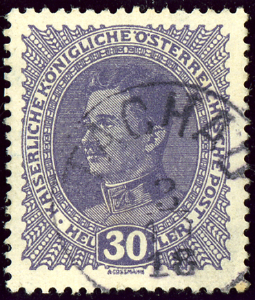 Austrian KK 30 heller stamp, cancelled at TACHAU in 1918 (Bohemia)